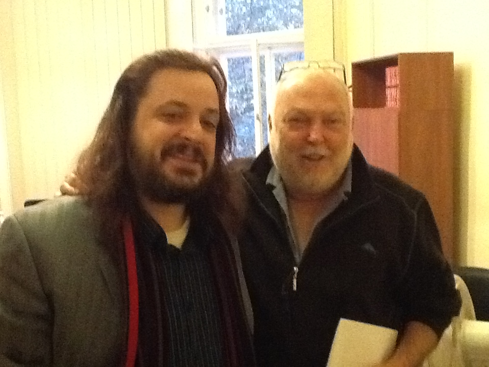 Producer Andrew Vajna and Diretor Milos Twilight after Sitges Film Festival.